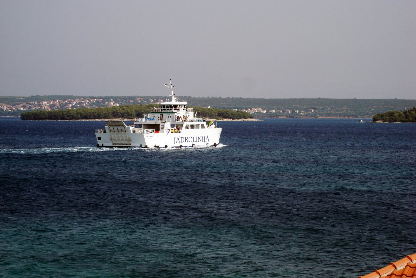 Ferry M/T Kijevo in Pašman channel on line Biograd – Tkon.